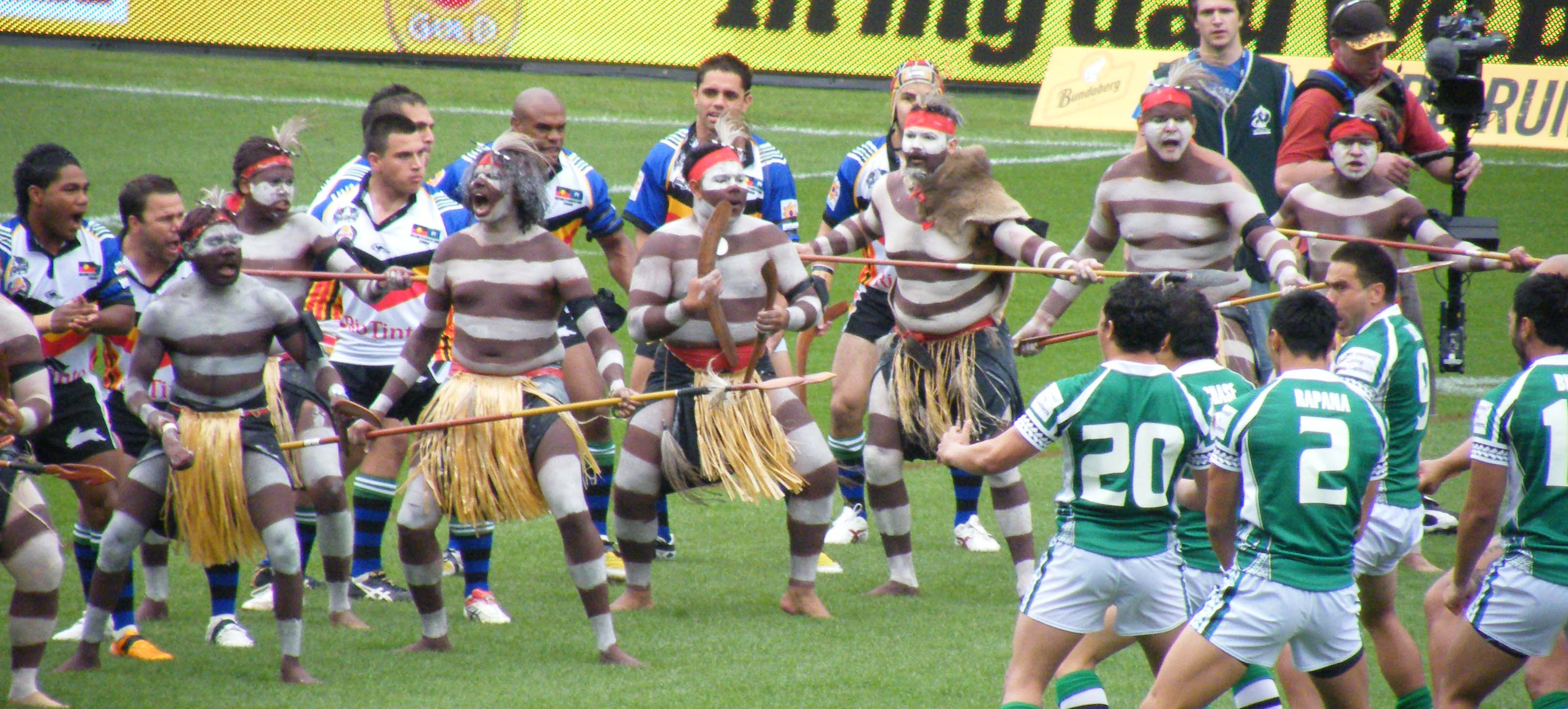 RLWC 2008 - Aboriginal Dreamtime Team vs New Zealand Maori